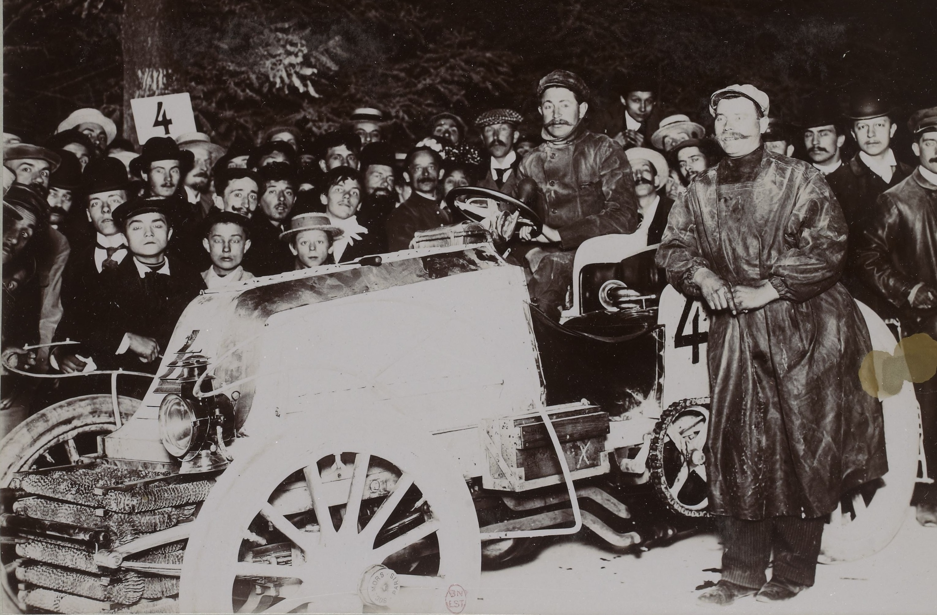 [Collection Jules Beau. Photographie sportive] : T. 14. AnnÃ©e 1901 / Jules Beau : F. 6v. [Paris - Berlin, Grande course annuelle de l' Automobile Club de France, Course de vitesse, 27 -29 juin 1901]